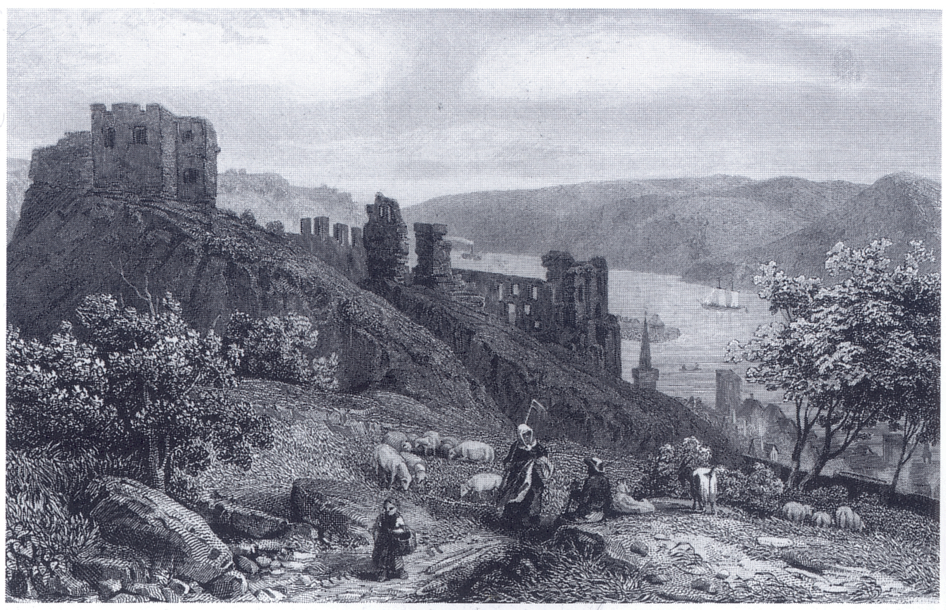 Ruins of Stahleck Castle, steel engraving